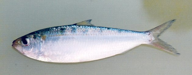 Crop of file in filename